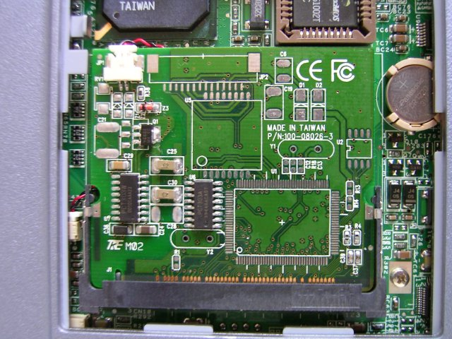 photo of a minipci card